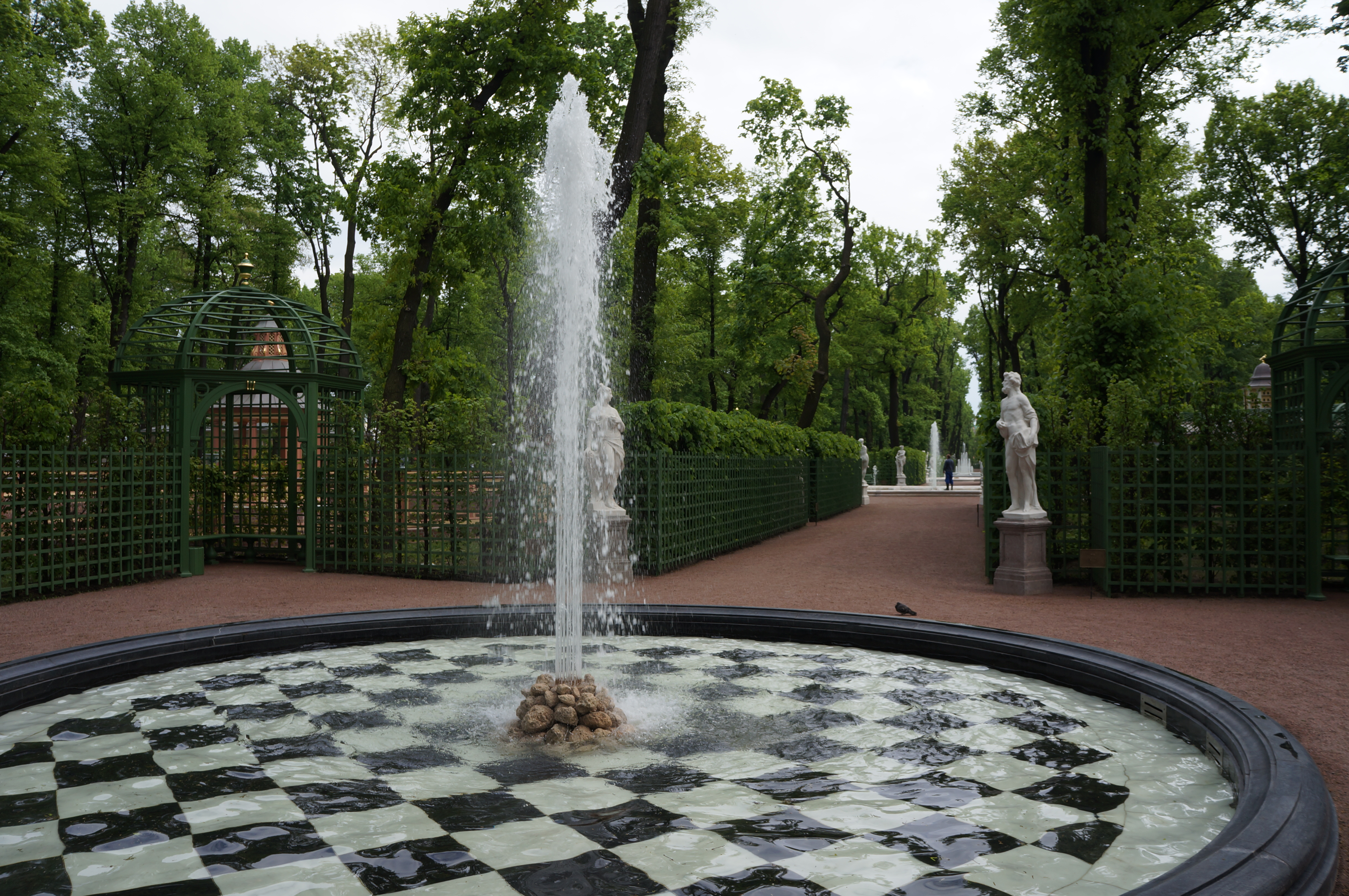 Летний сад. Центральная аллея. Фонтан "Царицын". 2012 г.